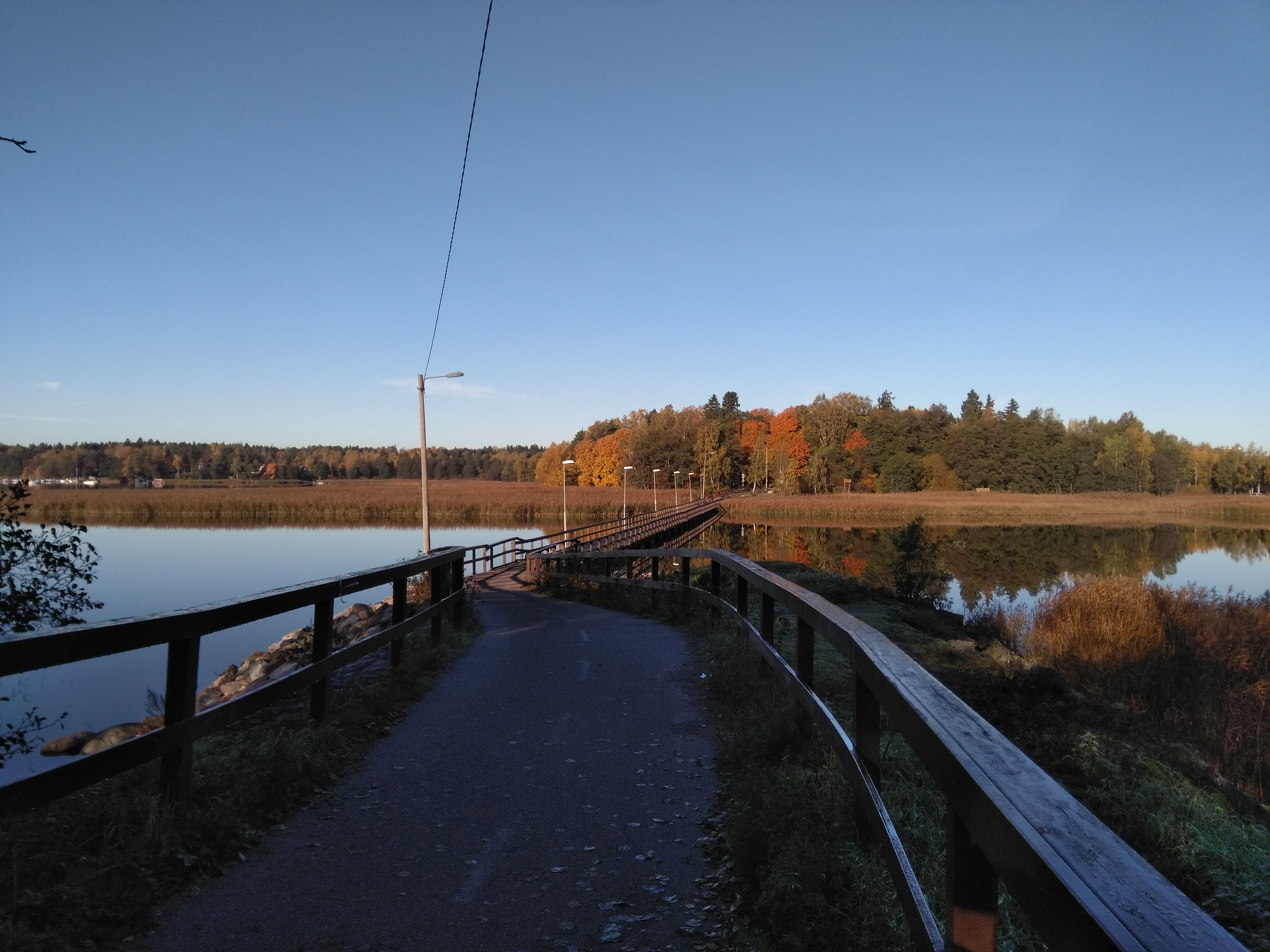 Western bridge to Tarvo Island in Espoo